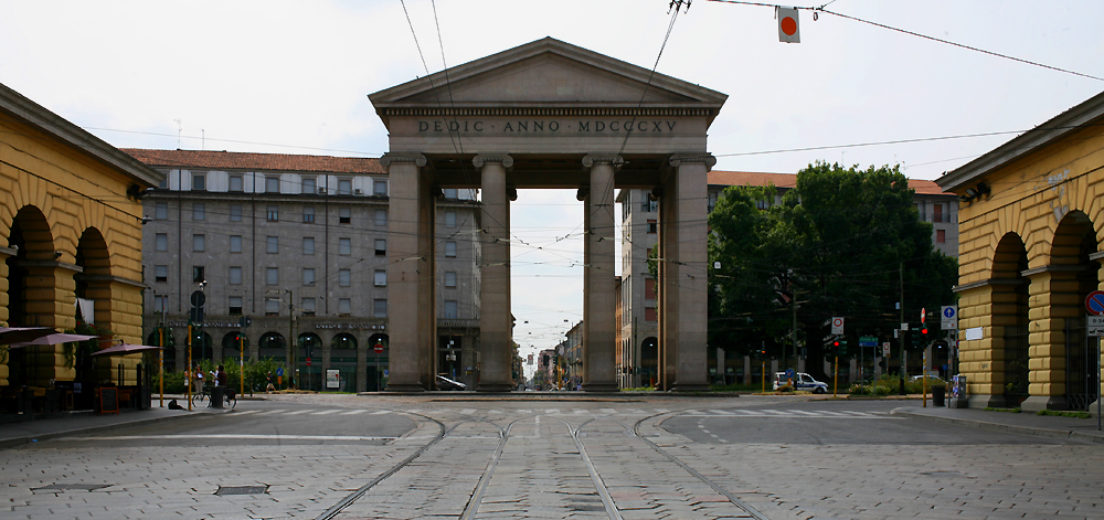 Porta Tcinese. in Milan, Italy, built 1815